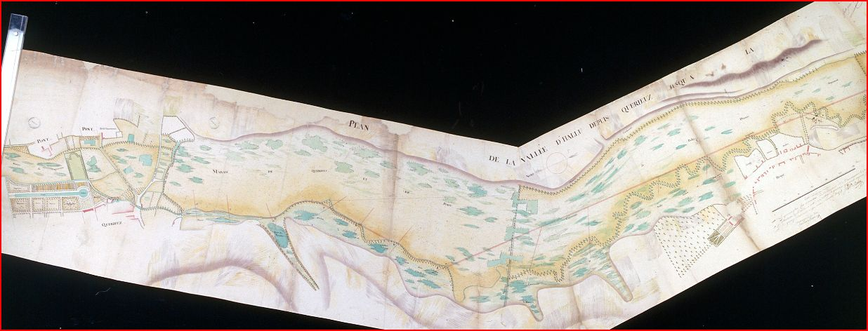 Water-coloroured drawing of 1757 (author unknown). From the left to the right : Querrieu castle (french formal garden, basin and river channel) ; ancient way from Querrieu to Noyelle with alleys demarcating the cultivation patches ; ancient Sybirre course and its flow into the Hallue river below the Querrieu village ; common marshes of Pont and Querrieu ; Bussy-lès-Daours castle with its gardens.